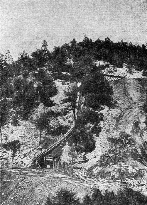 Beshui mine, Crimea.